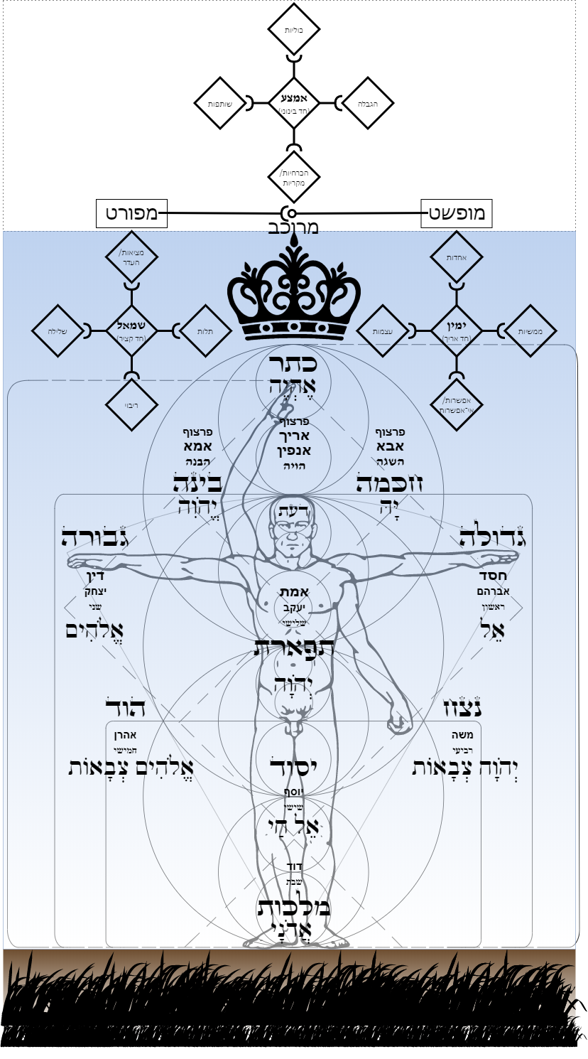 A diagram of the Kabbalistic "Tree of life" with the ten "Sephiroth" and a reference to Immanuel Kant's "Categories" (Hebrew). The ten "Sephiroth" and the twelve "Categories" are complementary towards a transcendental-ideal view of the world.